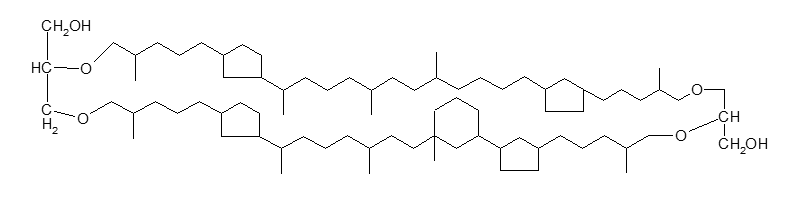 Structure of the archaeal lipid Crenarchaeol